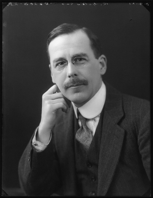 Photograph of Reginald Ruggles Gates (1882-1962)